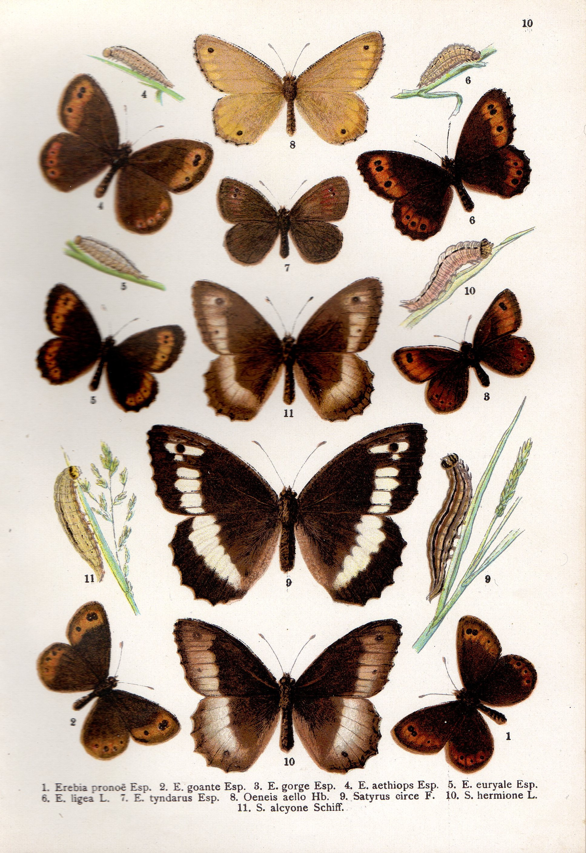 Table of Lepidoptera. From Joukl (1862-1910): "Motýlové a housenky střední Evropy" 1910.